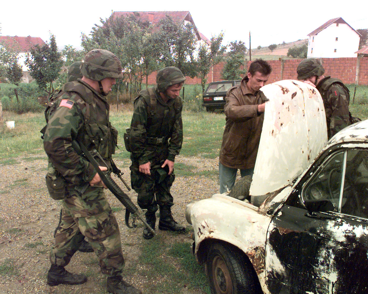 Soldiers surround a car while the owner opens the hood for inspection as they search for automatic weapons in the town of Zitinje, Kosovo, on July 26, 1999. Soldiers of the 1st Battalion, 7th Field Artillery, are deployed to Kosovo as part of KFOR. KFOR is the NATO-led, international military force in Kosovo on the peacekeeping mission known as Operation Joint Guardian.